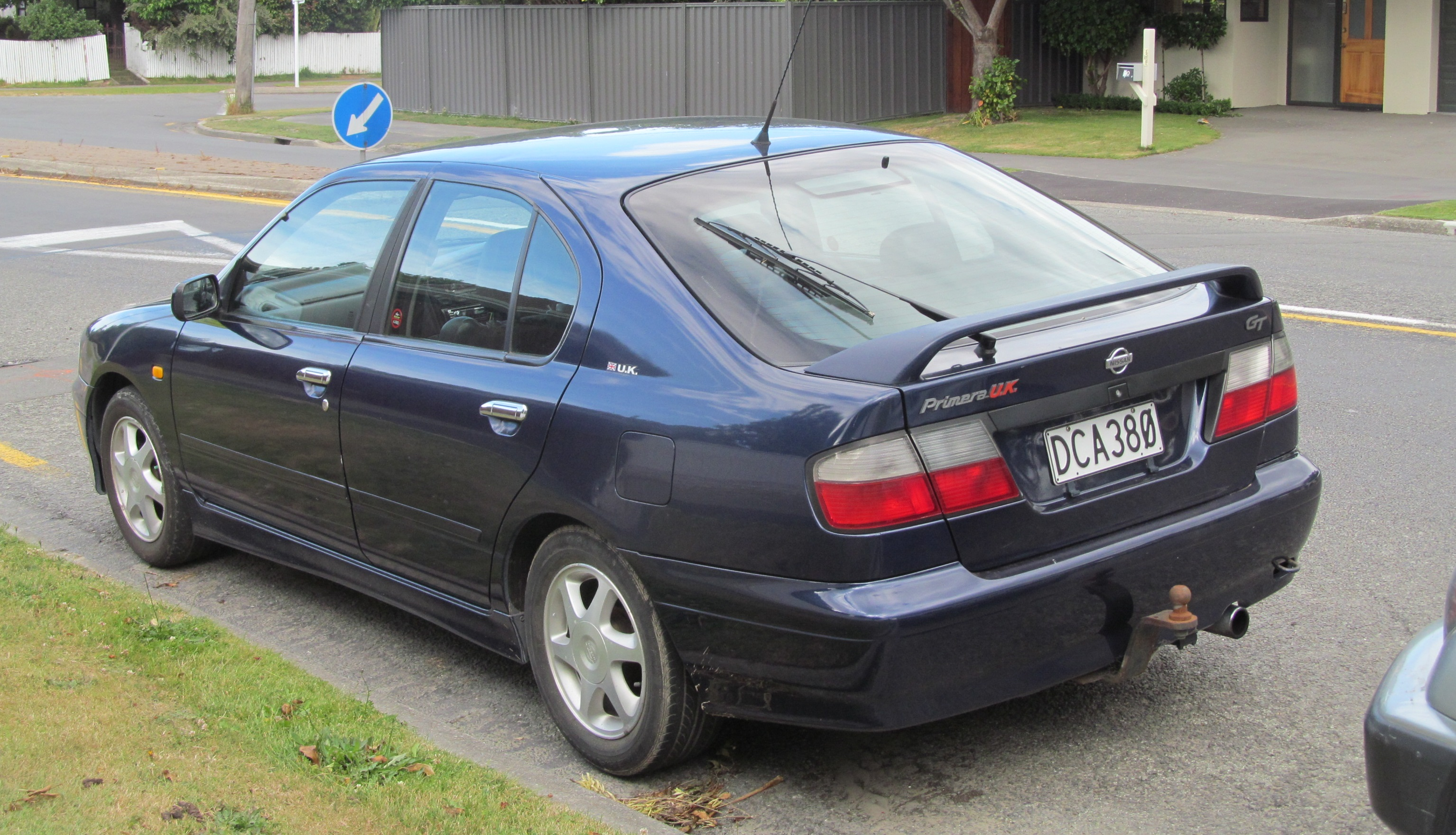 Nissan Primera UK GT. The UK GT was the Sunderland-built Primera hatchback exported to Japan as a captive import.